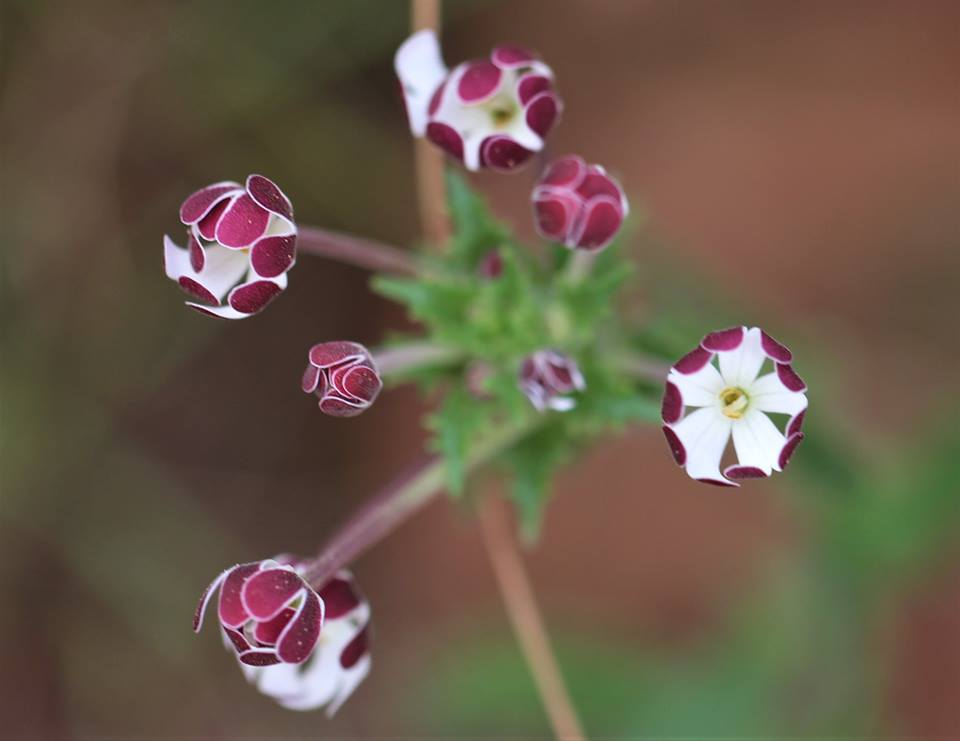 Zaluzianskya capensis Walp. - Platteklip Gorge, Table Mountain, South Africa